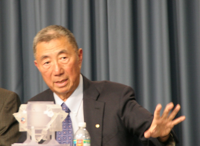 Samuel Ting, AMS-02 Principal Investigator, at the ISS Science Technology briefing on 28 April 2011 at NASA Kennedy Space Center.